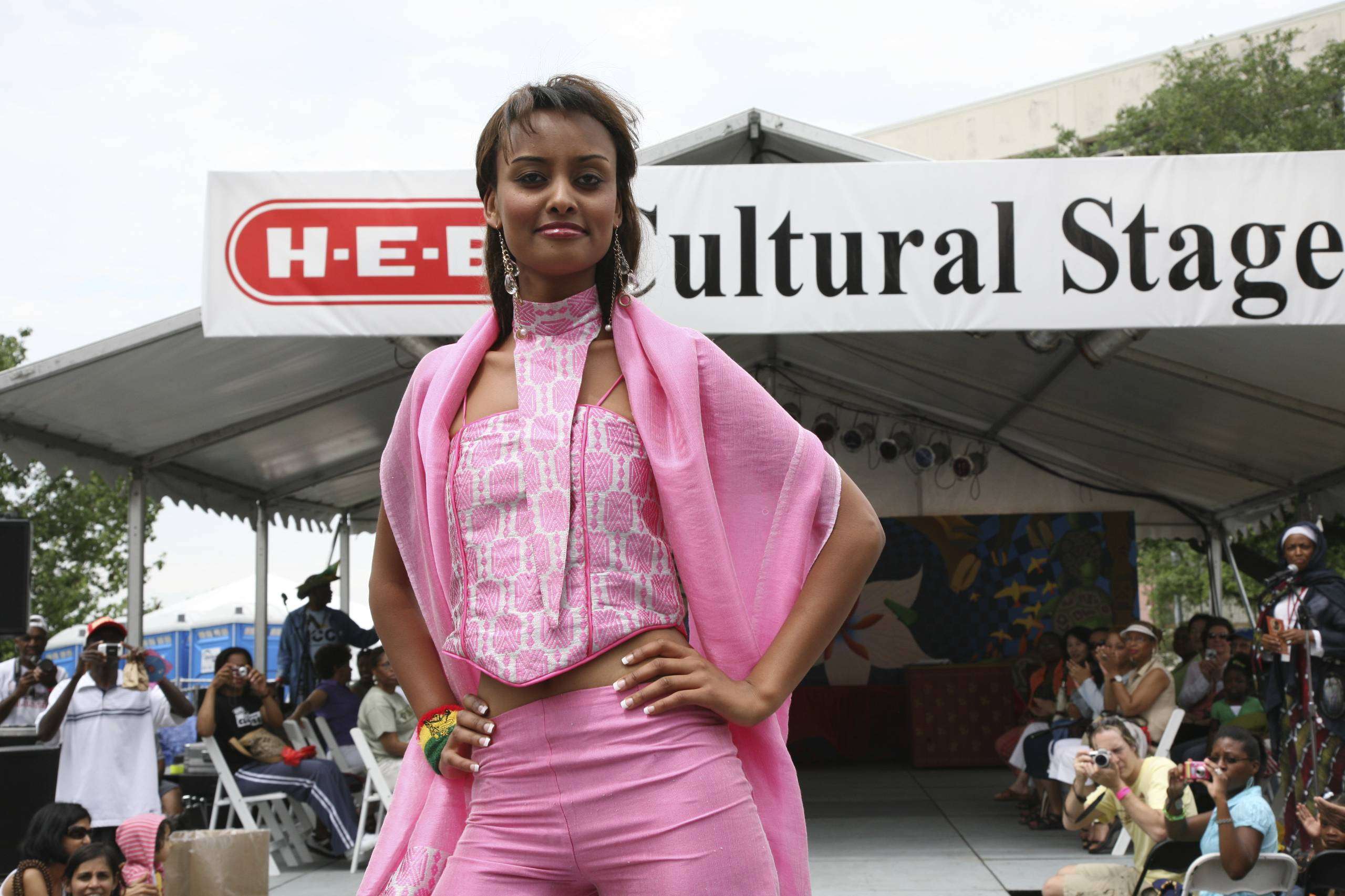 Ethiopian model at the Ethiopian Fashion Show at the International Festival 2008.